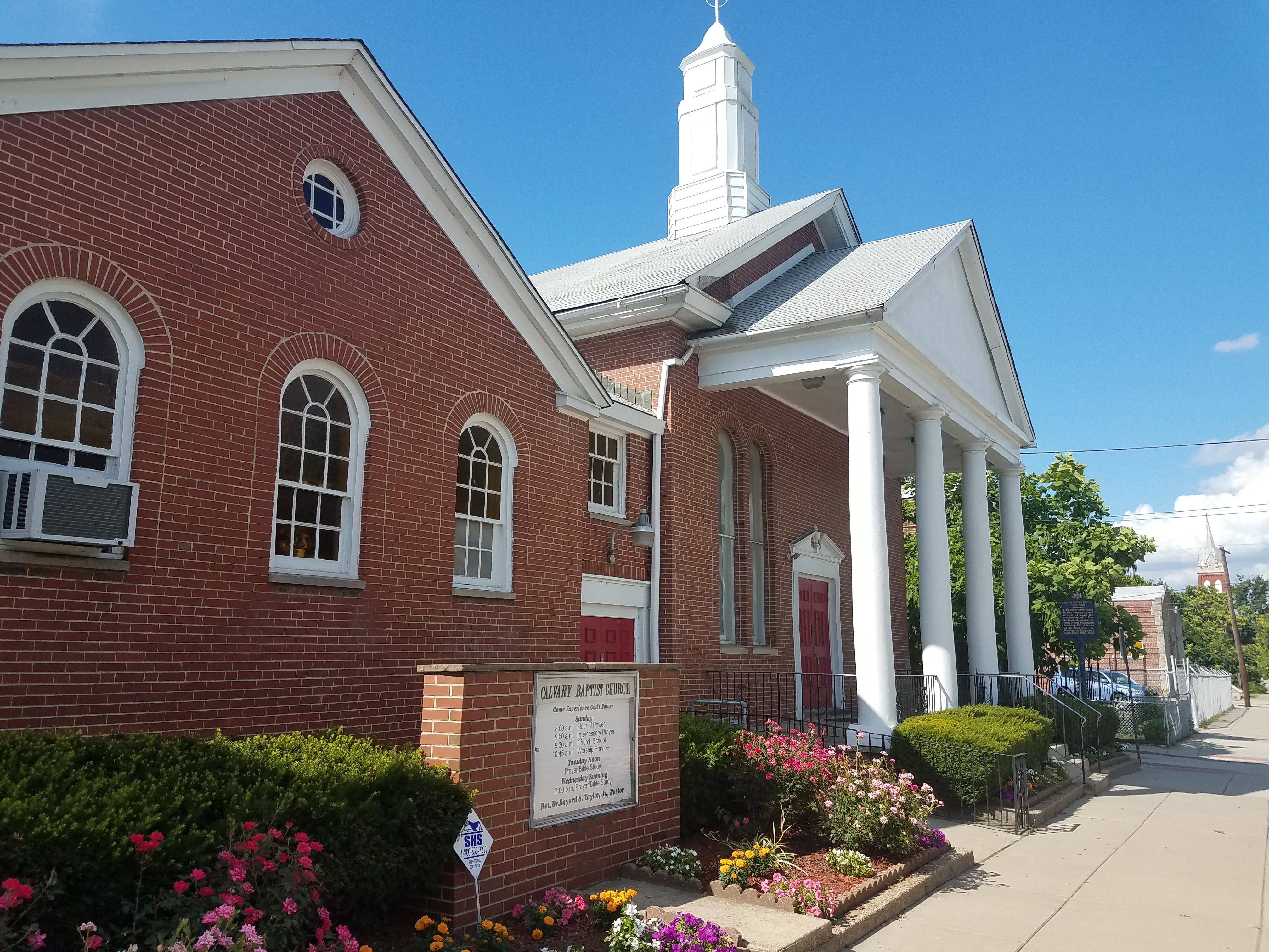 Photo of Calvary Baptist Church in Chester, Pennsylvania taken July 5, 2018